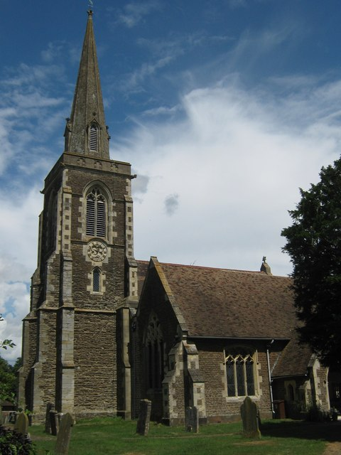 The Spire of St Mary's Church, Frittenden, near to Frittenden, Kent, Great Britain. Seen from South of the Church, near the footpath on Frittenden Road.